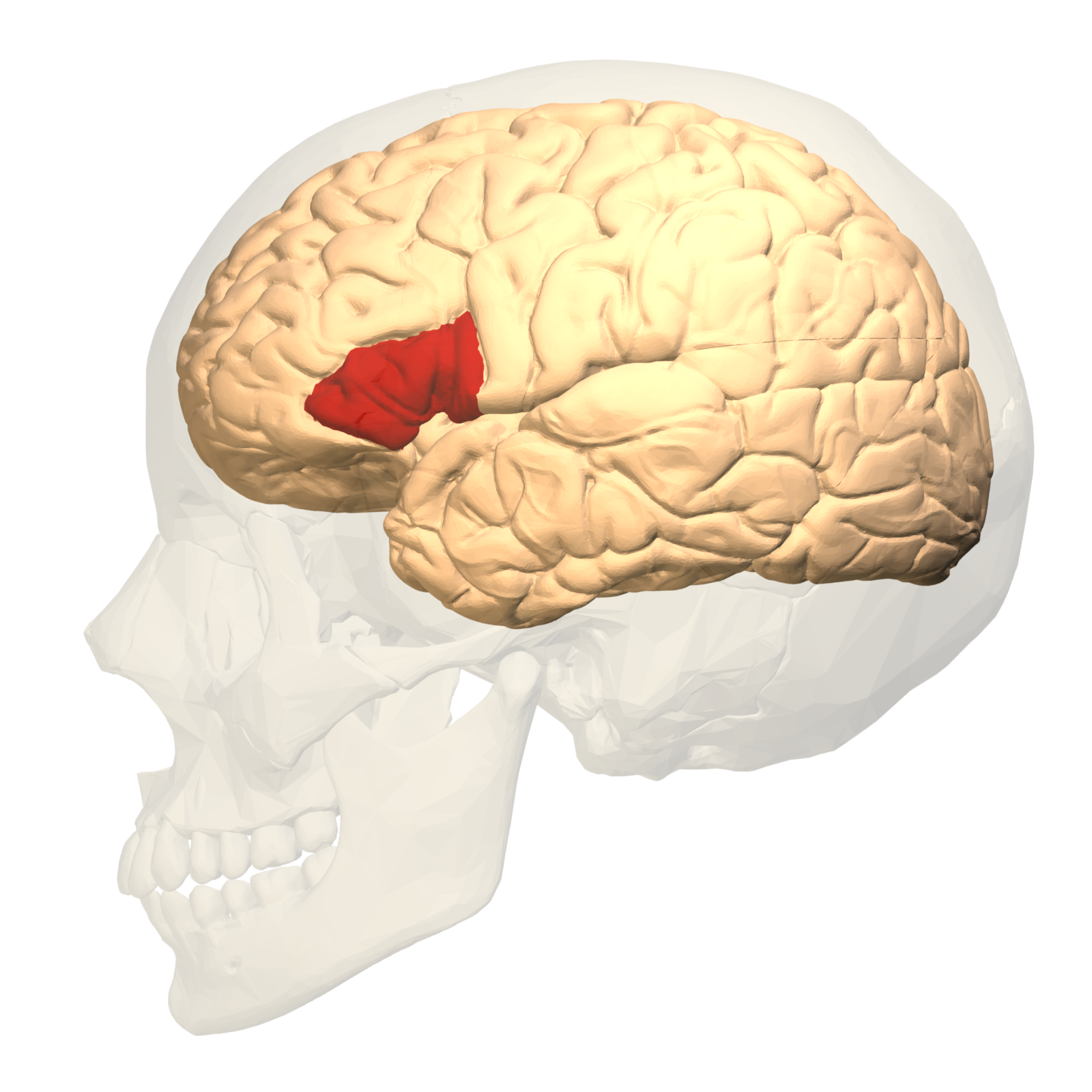 Broca's area (shown in red).Colored region is pars opercularis and pars triangularis of the inferior frontal gyrus. Broca's area is now typically defined in terms of the pars opercularis and pars triangularis of the inferior frontal gyrus. (N. F. Dronkers, O. Plaisant, M. T. Iba-Zizen, and E. A. Cabanis (2007). "Paul Broca's Historic Cases: High Resolution MR Imaging of the Brains of Leborgne and Lelong". Brain 130 (Pt 5): 1432–1441. PMID 17405763.)